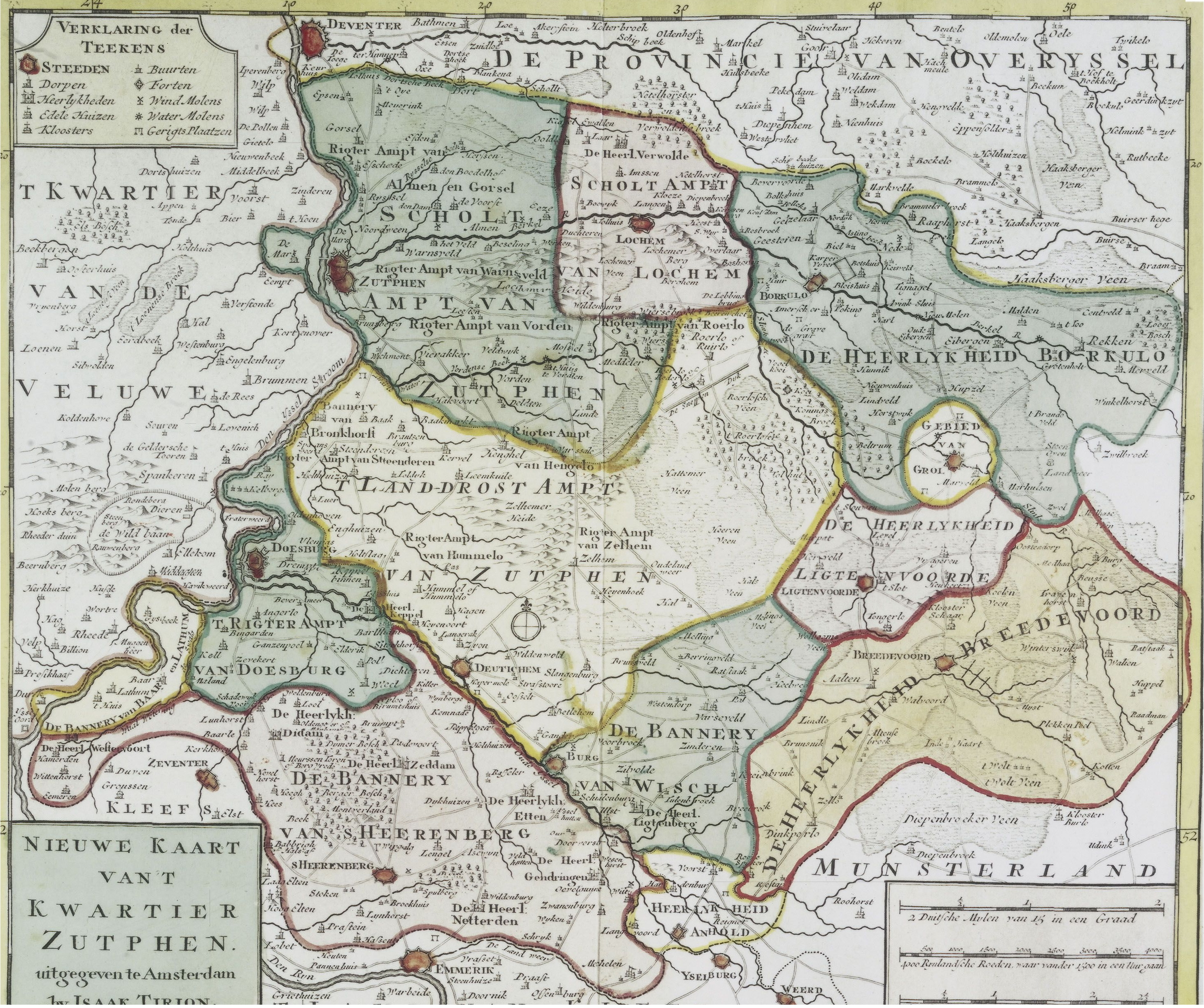 New map of quarter Zutphen, copperprint, Atlas from the XVII Dutch states